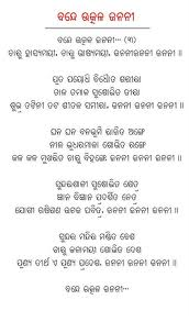 Bande Utkala Janani